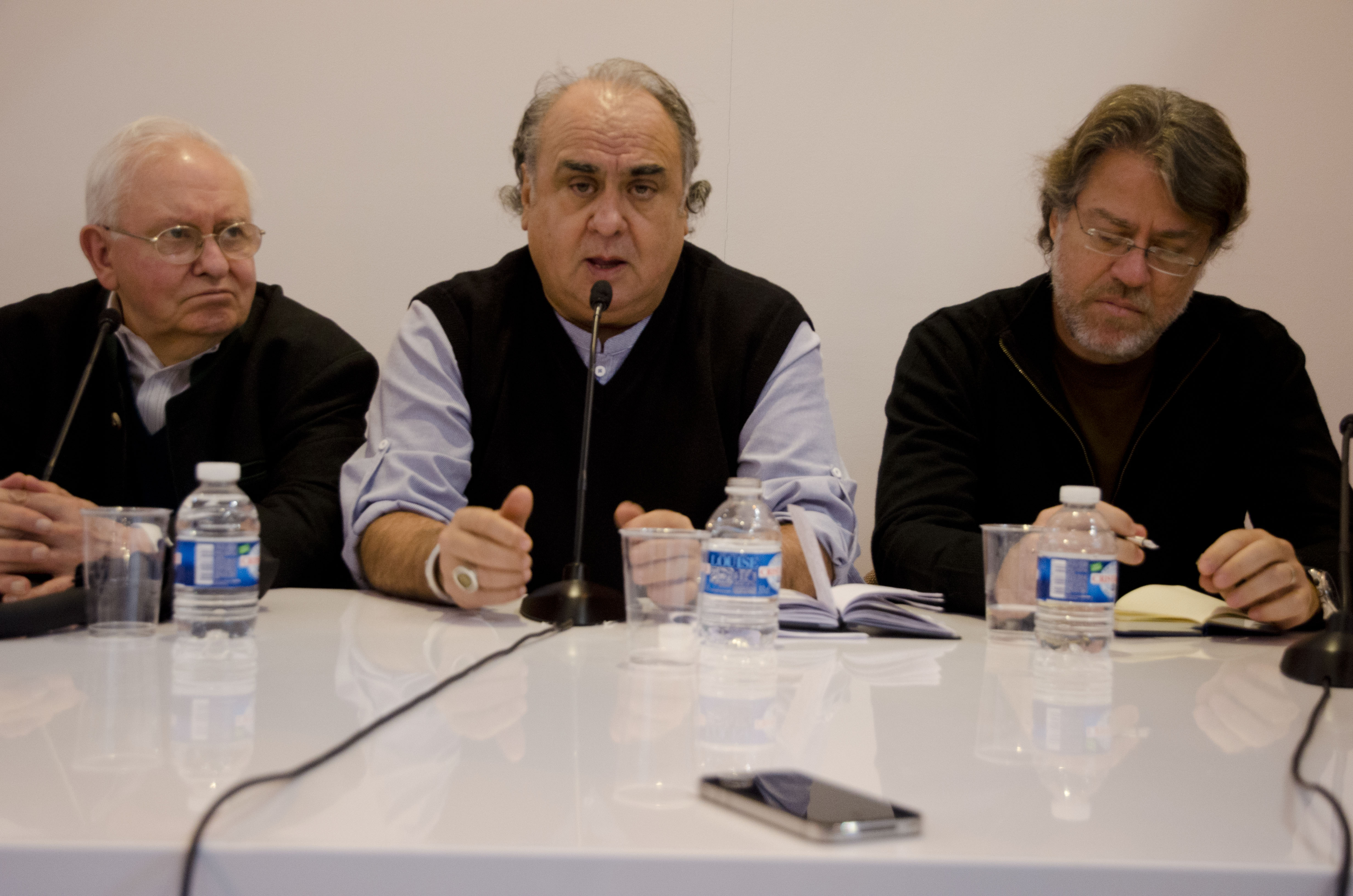 Paris, March 22, 2014 - Secretary of Culture of the Office of the President, Jorge Coscia, Ricardo Forster, Jorge Alemán y Ernesto Laclau take part of the table "Popular Democracy in Latin America". The moderator was Rodolfo Hamawi, national director of Industrias Culturales. Photos: Augusto Starita / Culture Secretariat of the Presidency of the Nation.